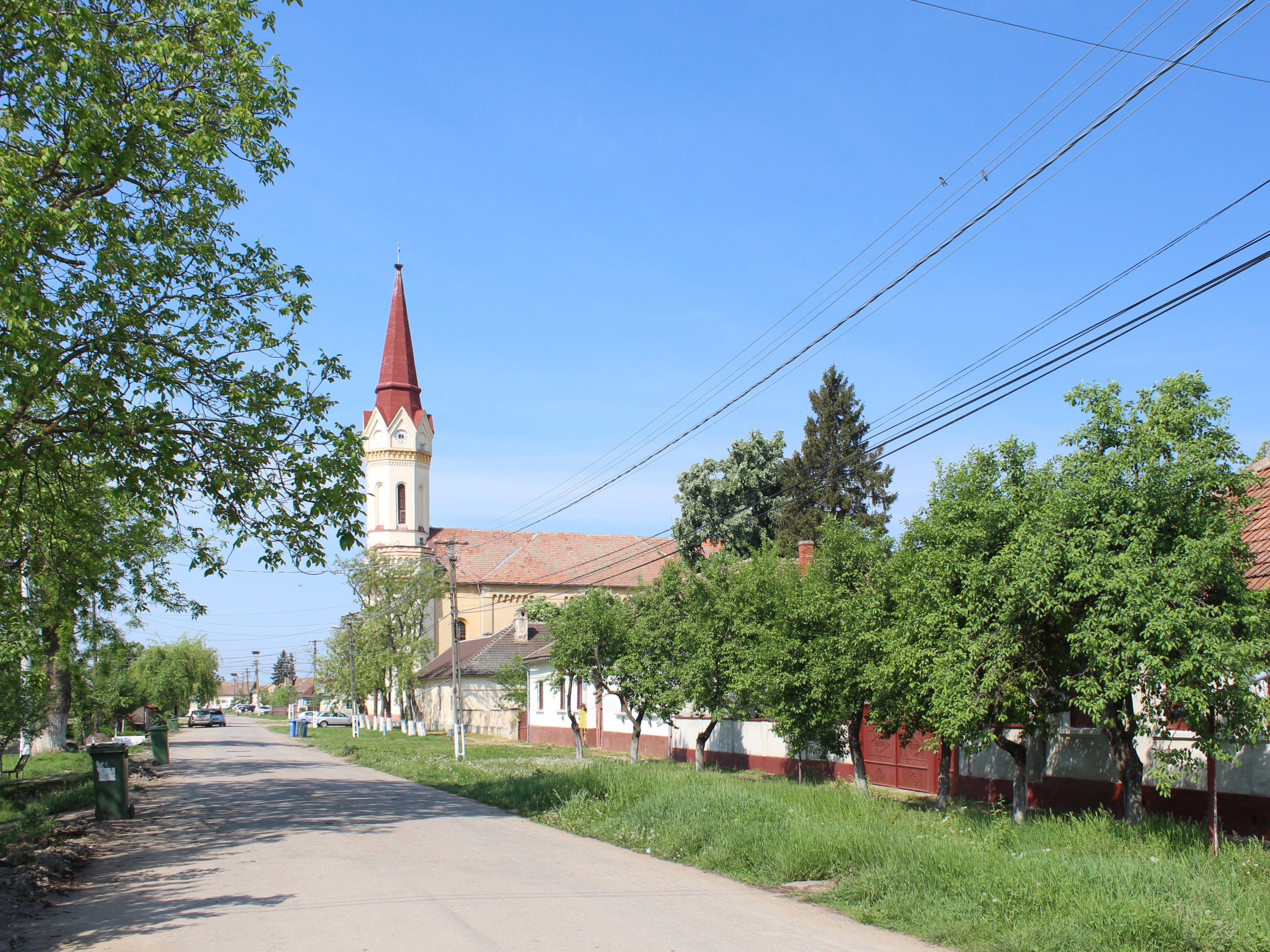 Panorama of Zădăreni, Romania